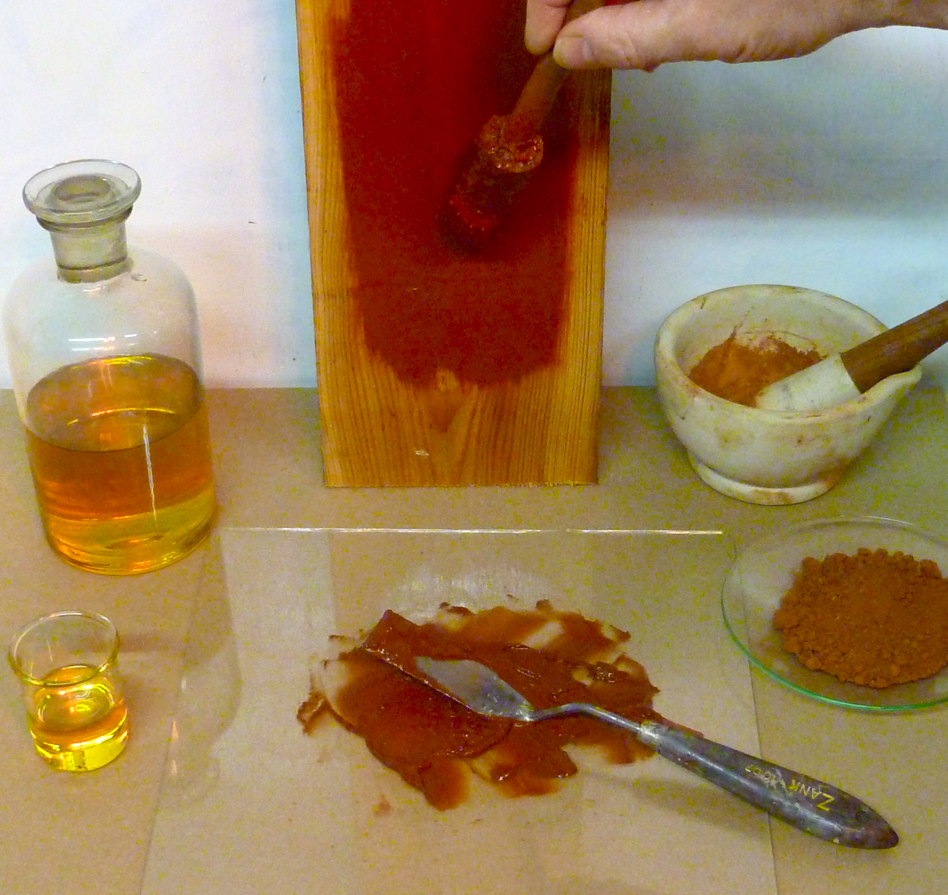 The essential components of pure linseed oil paint as they are mixed together traditionally: cold pressed, purified and "boiled" linseed oil and ground dried clay earth pigment are thoroughly amalgamated. This paint dries within two days at normal temperature.